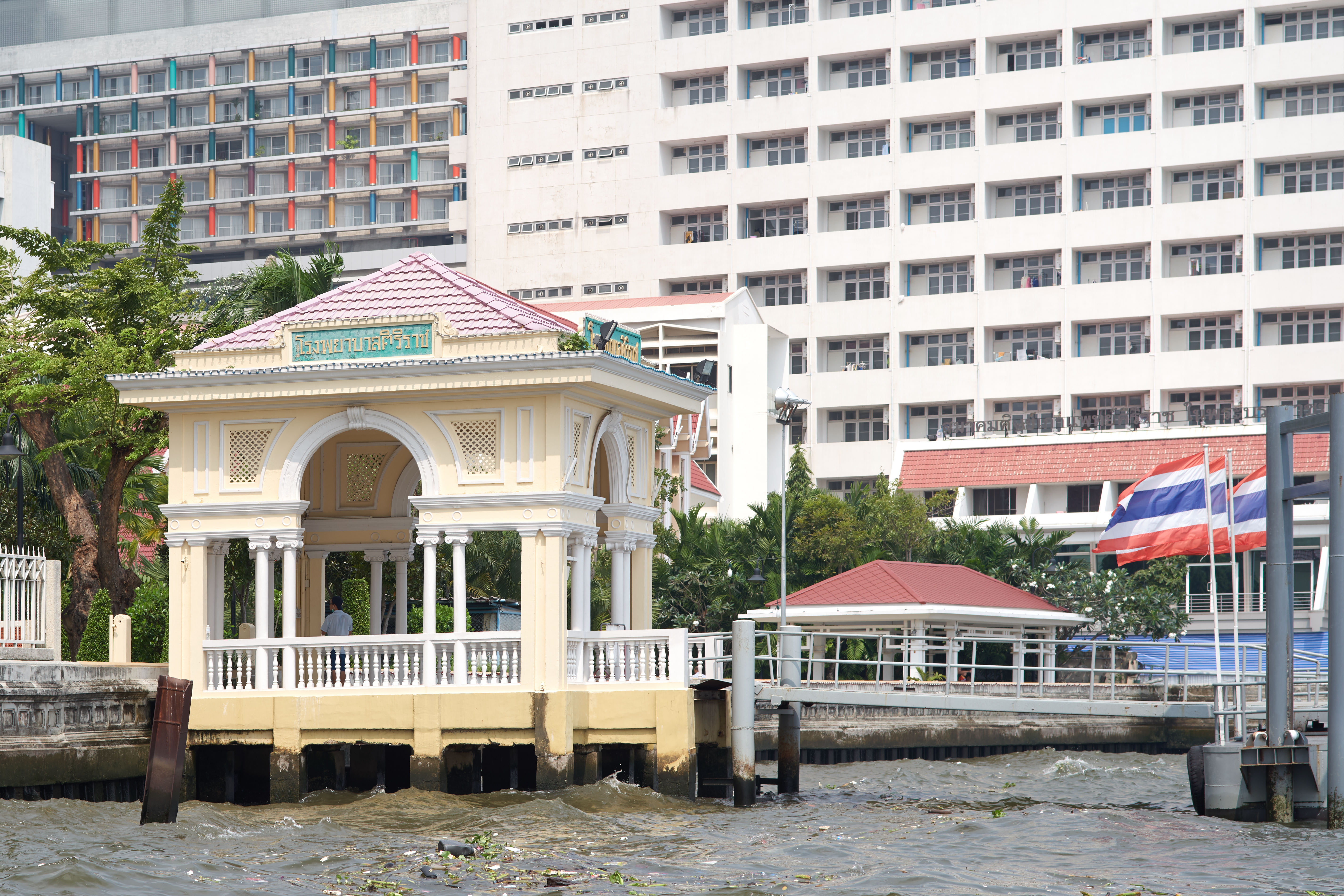 Side view of a pier in Siriraj Hospital, not normally open to boats which more often dock at the nearby Wang Lang/Siriraj pier.